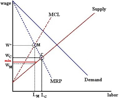 A diagram showing the behavior of a monopsonistic employer. I drew it myself.